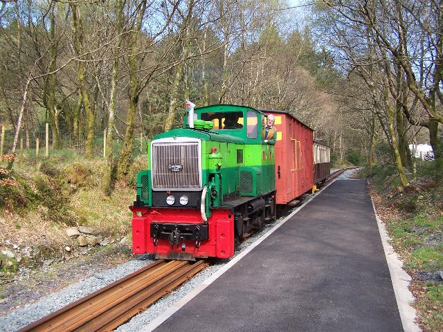 Upnor Castle with a construction train at Beddgelert Forest Halt. B.W.Hughes